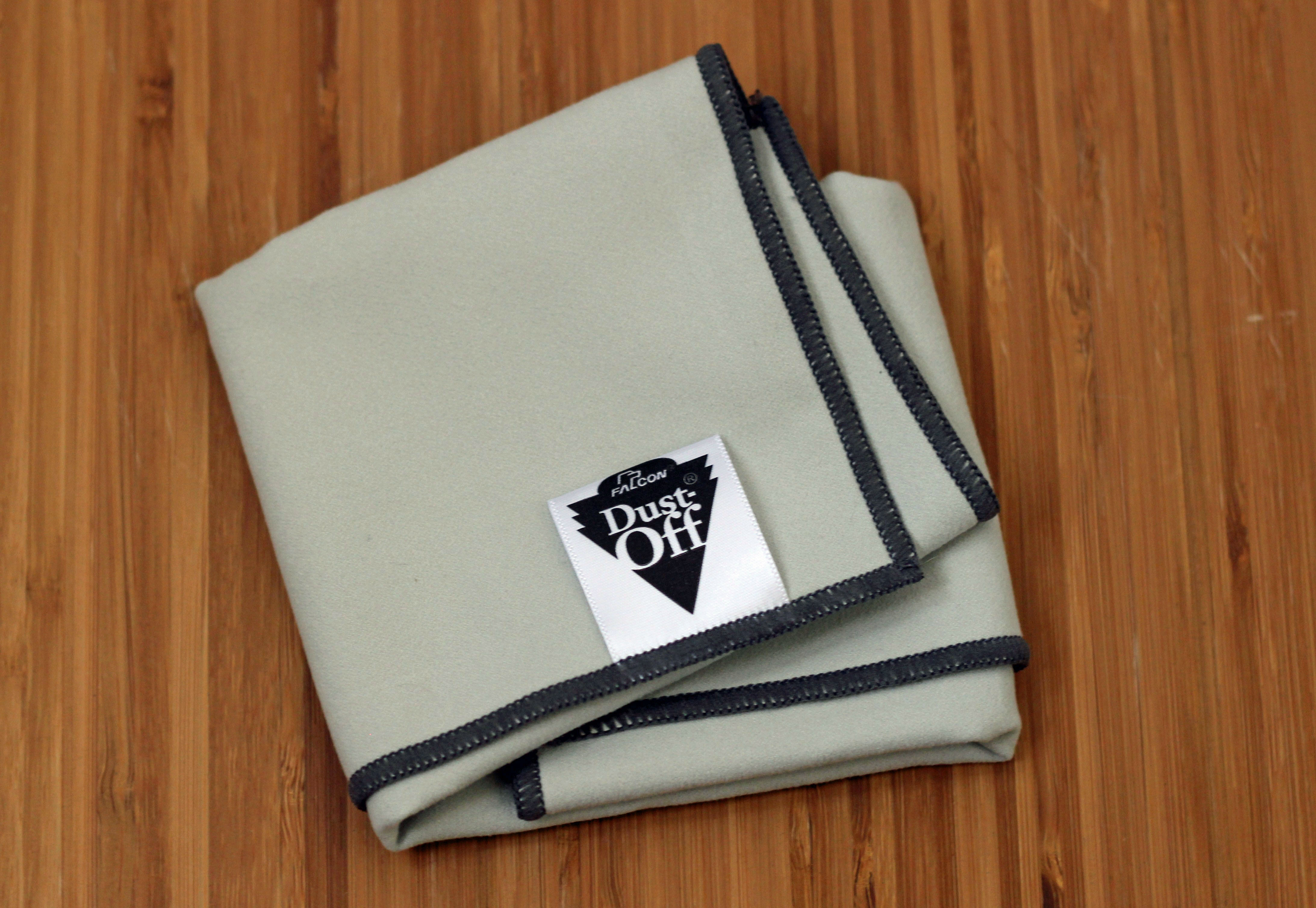 Dust-Off Micro-Fiber Screen Shammy for cleaning computer screens, camera lenses, etc.